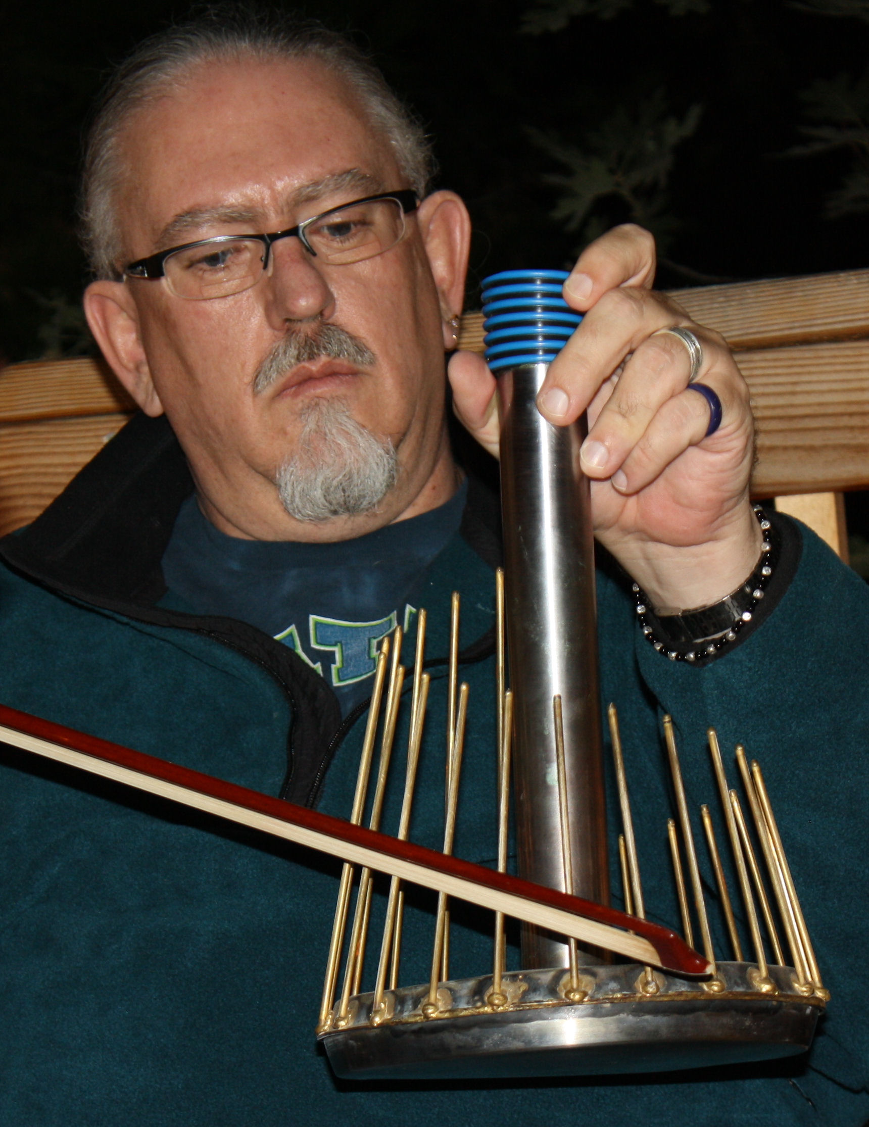 playing a water theremin